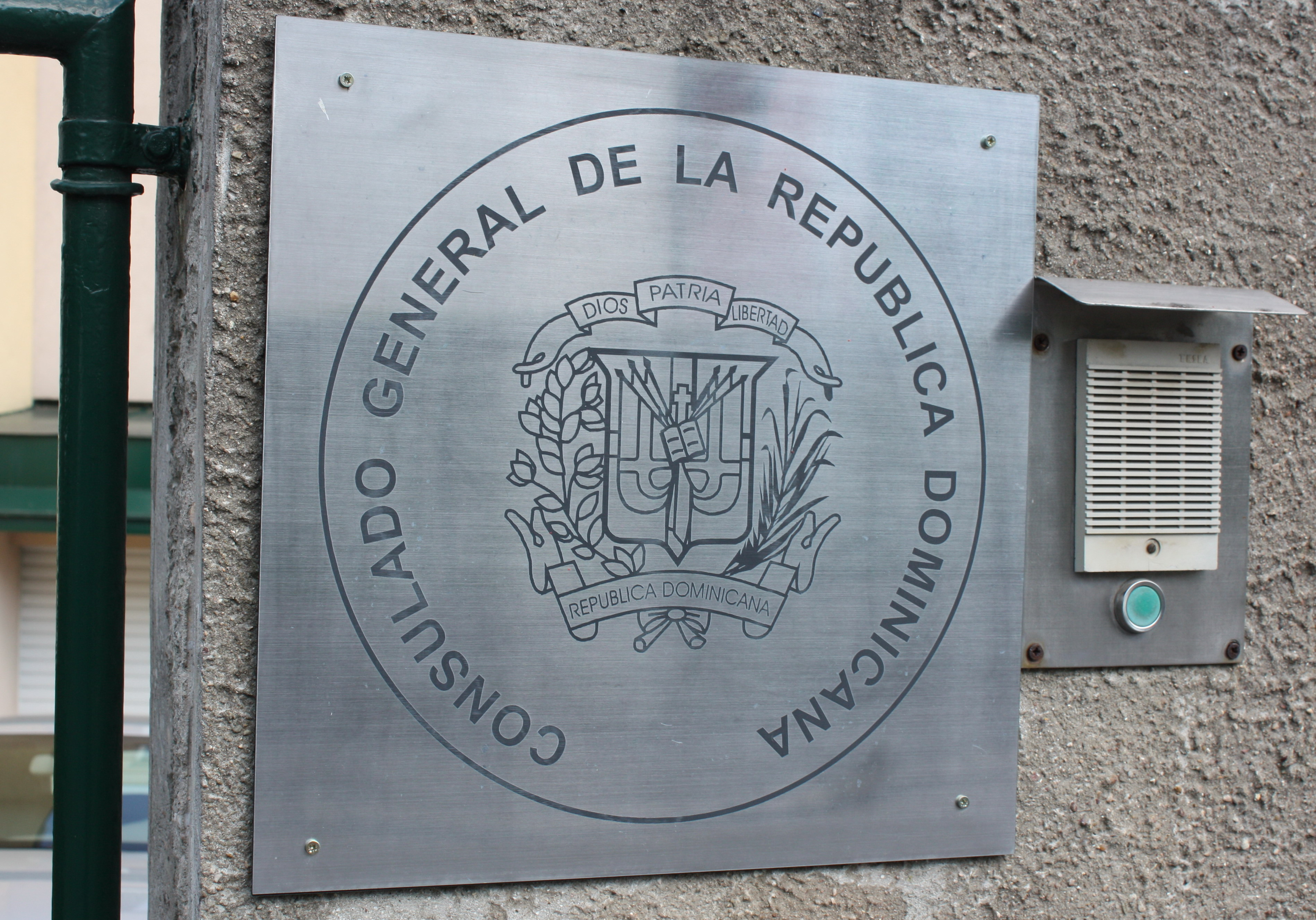 Coat of arms of the Dominican Republic on its consulate in Prague.